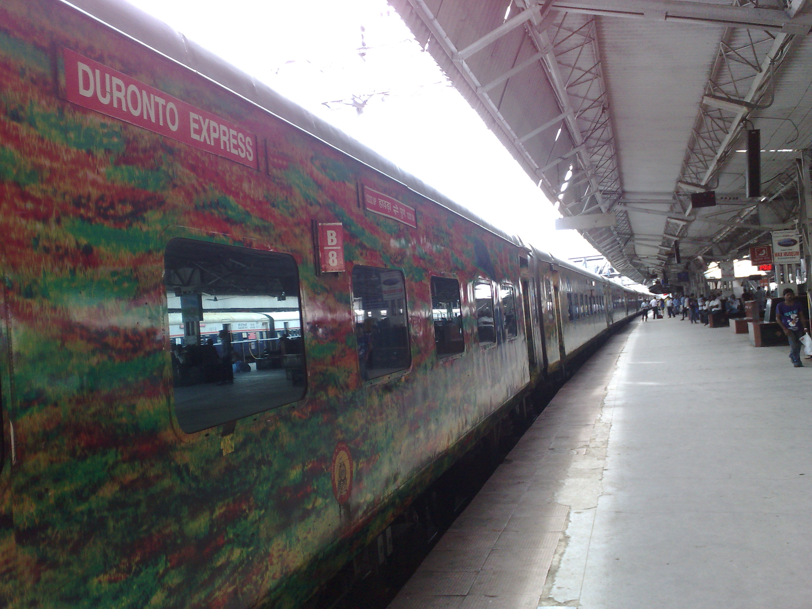 12221 Pune Howrah Duronto Express at Pune Junction